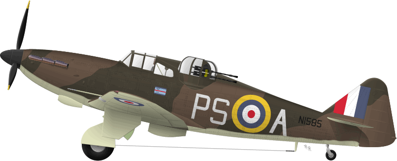 Boulton Paul Defiant Mk.I, No. 264 Sqn., RAF Kirton-in-Linsey, July 1940